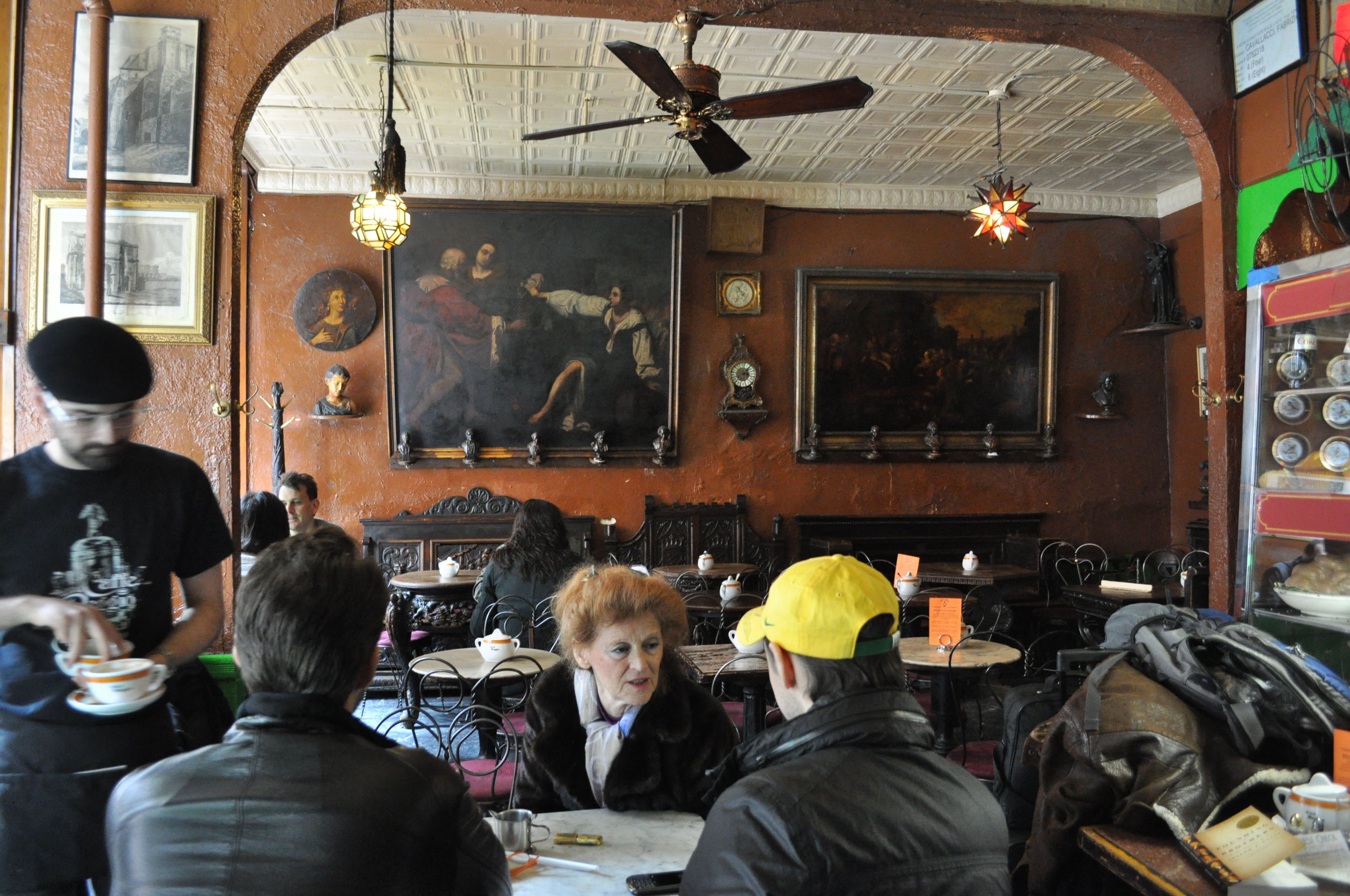 Interior of the Caffe Reggio, 119 MacDougal Street, New York City. Established 1927.